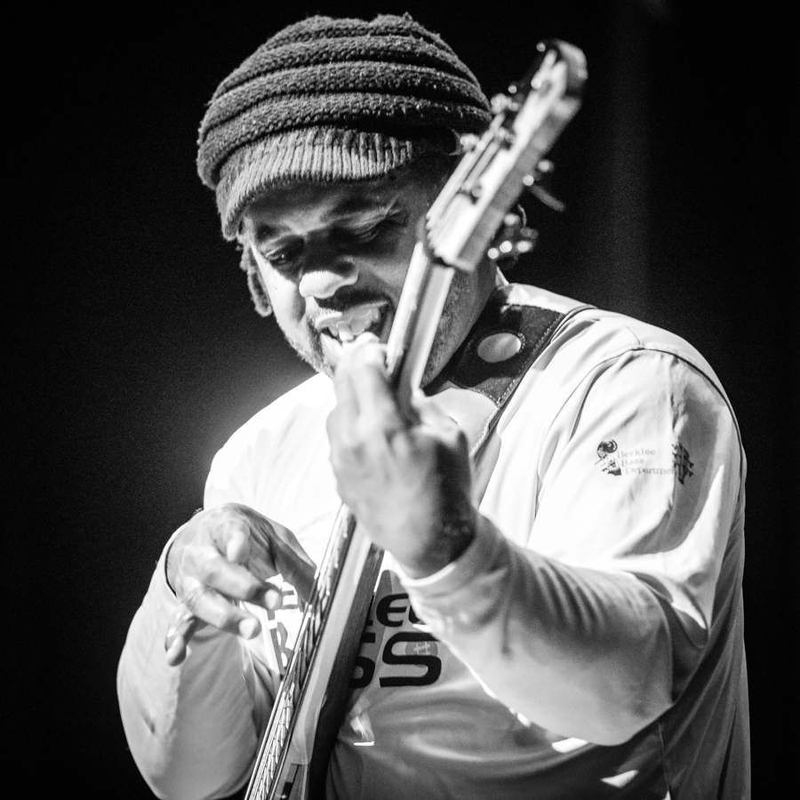 Victor Wooten with his trio at Cosmopolite. The concert took place on 27. October 2018 in Oslo. Lineup: Victor Wooten (bass guitar) Dennis Chambers (drums) Bob Franceschini (saxophone and flute)